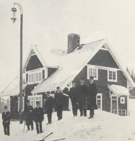 Hammerdal railway station, Sweden, with SJ personnel, circa 1920.